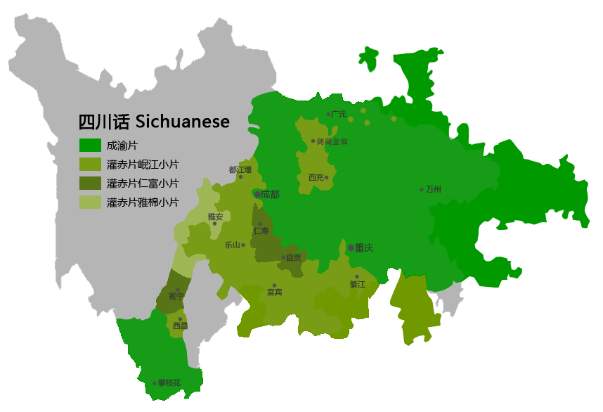 Dialects of Sichuanese